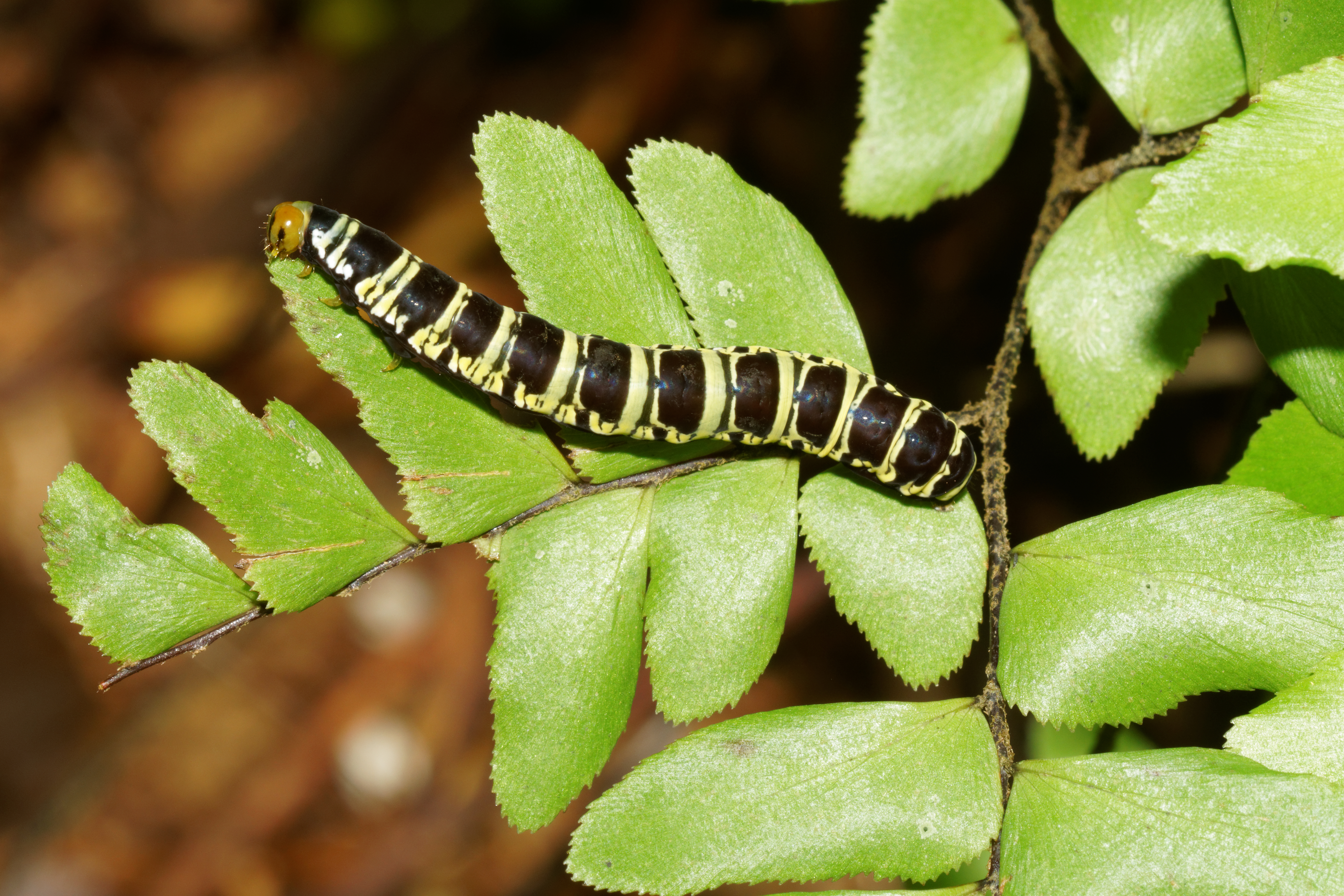 Callopistria is a genus of moths of the Noctuidae family. This is Callopistria rivularis. The host plant is Adiantum capillus-veneris. (ID: Balakrishnan Valappil)